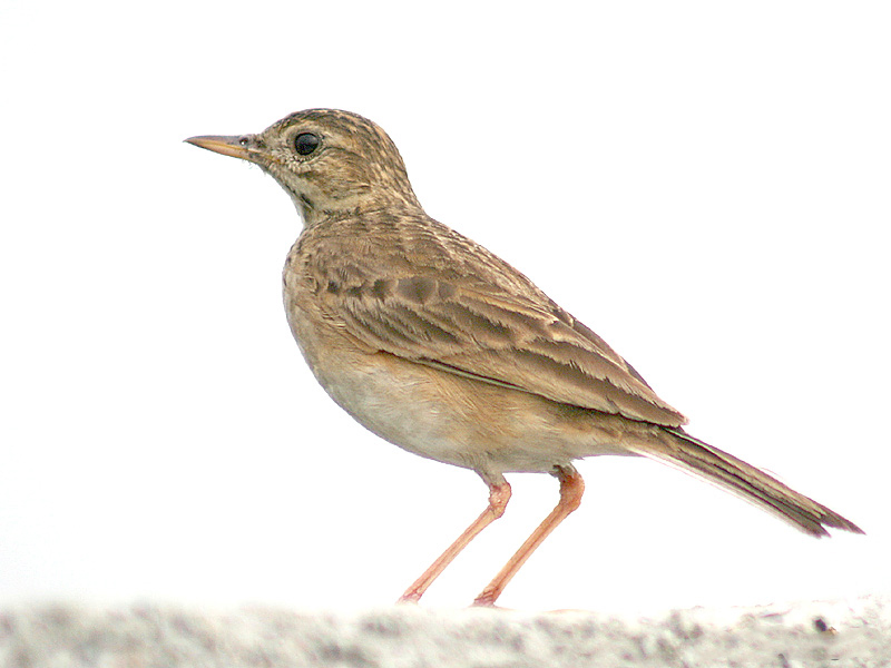 Paddyfield Pipit Anthus rufulus in Kolkata, West Bengal, India.